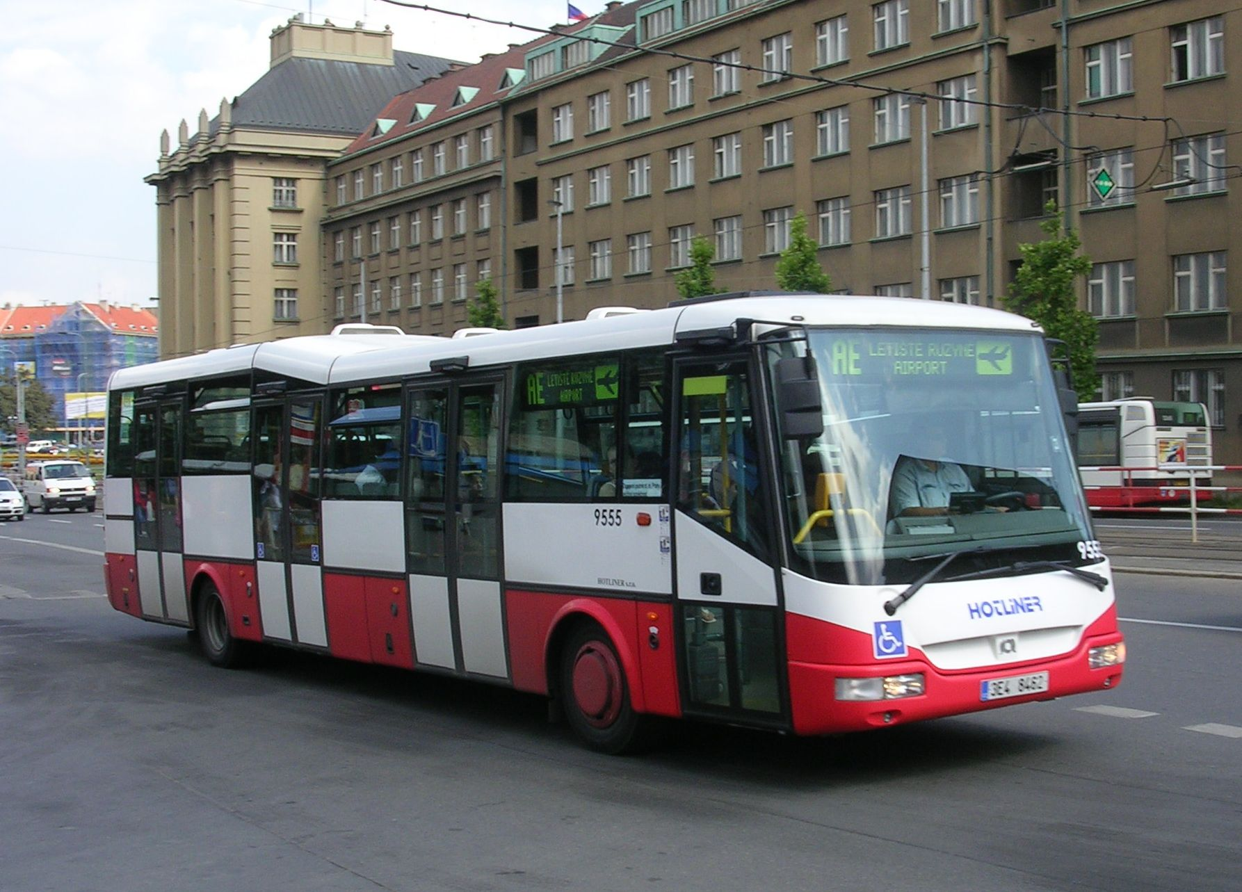 Dejvice, Prague, the Czech Republic. Buses near the "Dejvická" bus stop.